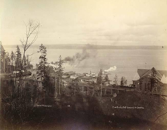 Leschi Park, showing buildings and docks, looking east towards Lake Washington.